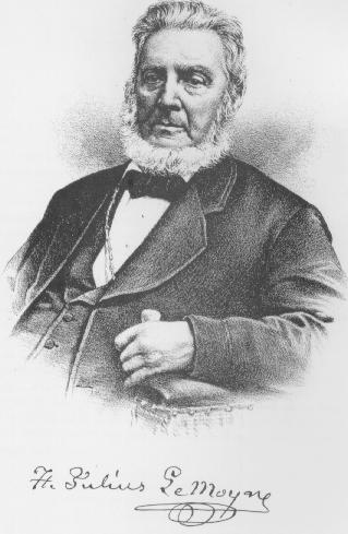 This is an image of Francis Julius LeMoyne. After discussion with the Washington County Historical Society regarding its origins, it has been determined that this image was published before January 1, 1923, in the United States.